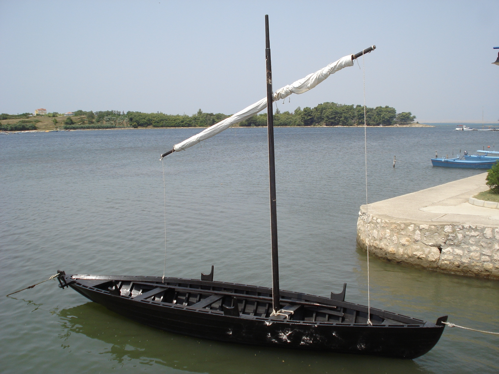 Condura Croatica - one of the oldest types of Croatian boats (10th-11th century), rebuilt in Nin, Croatia.